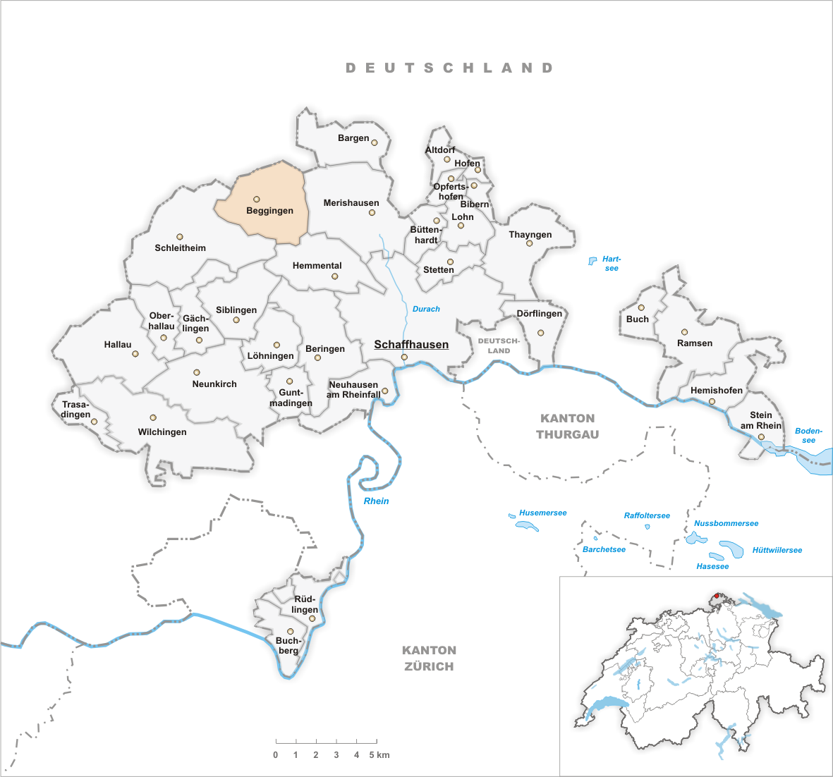 Municipality Beggingen